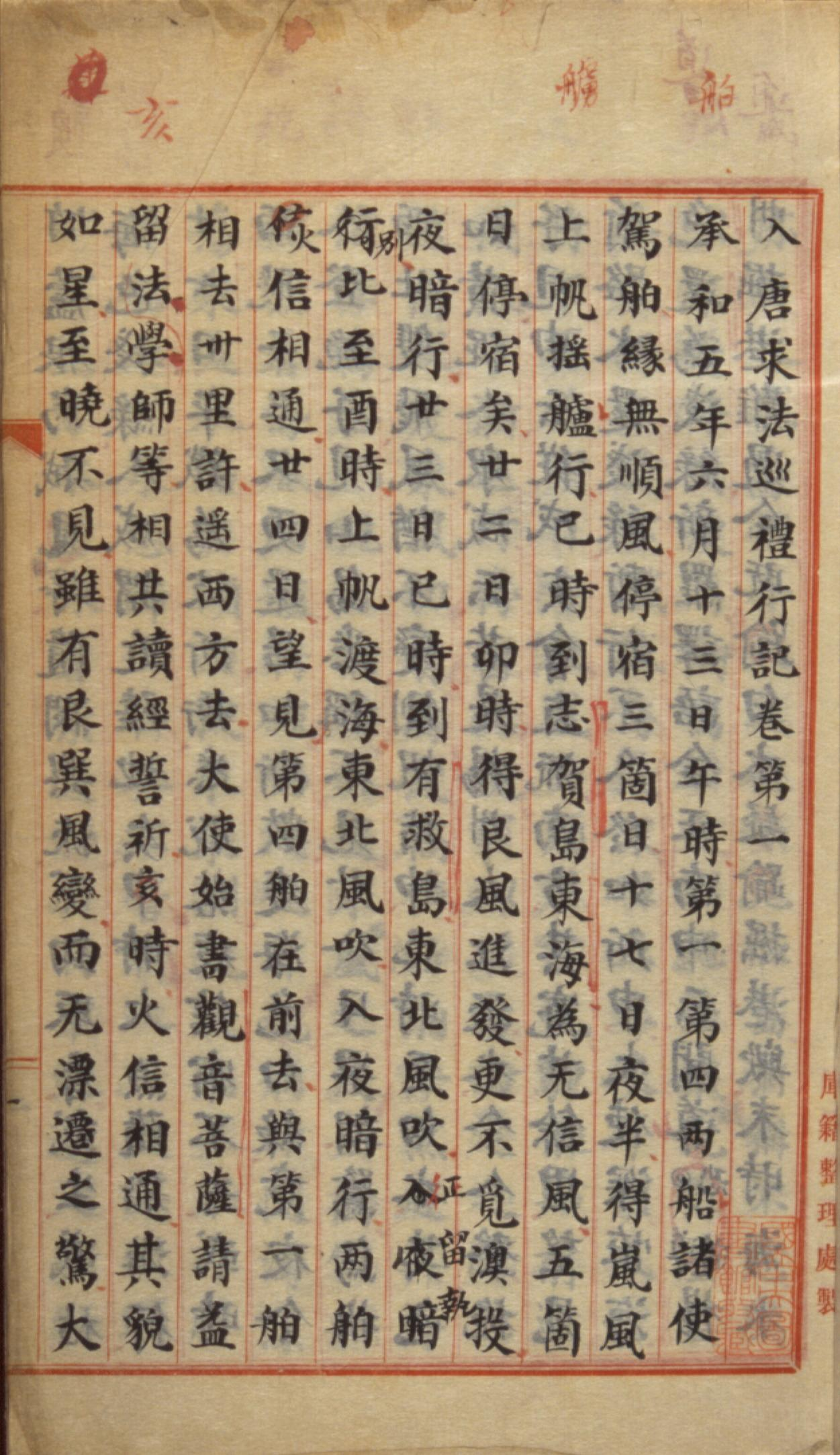 Page of Ennin's Diary: The Record of a Pilgrimage to China in Search of the Law / 入唐求法巡禮行記. This is a page of the four volume-book of the monk Ennin (圓仁/ 円仁?, AD 793 or 794 – 864), of the version kept by Taiwan's National Central Library ( with Call Number 311.8 09023. Original manuscript written ca. 838. Version shown in the picture, unknown.